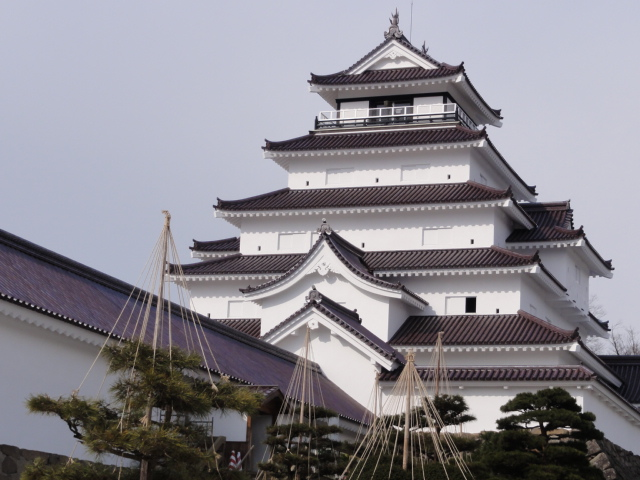 The Aizu-Wakamatsu Castle